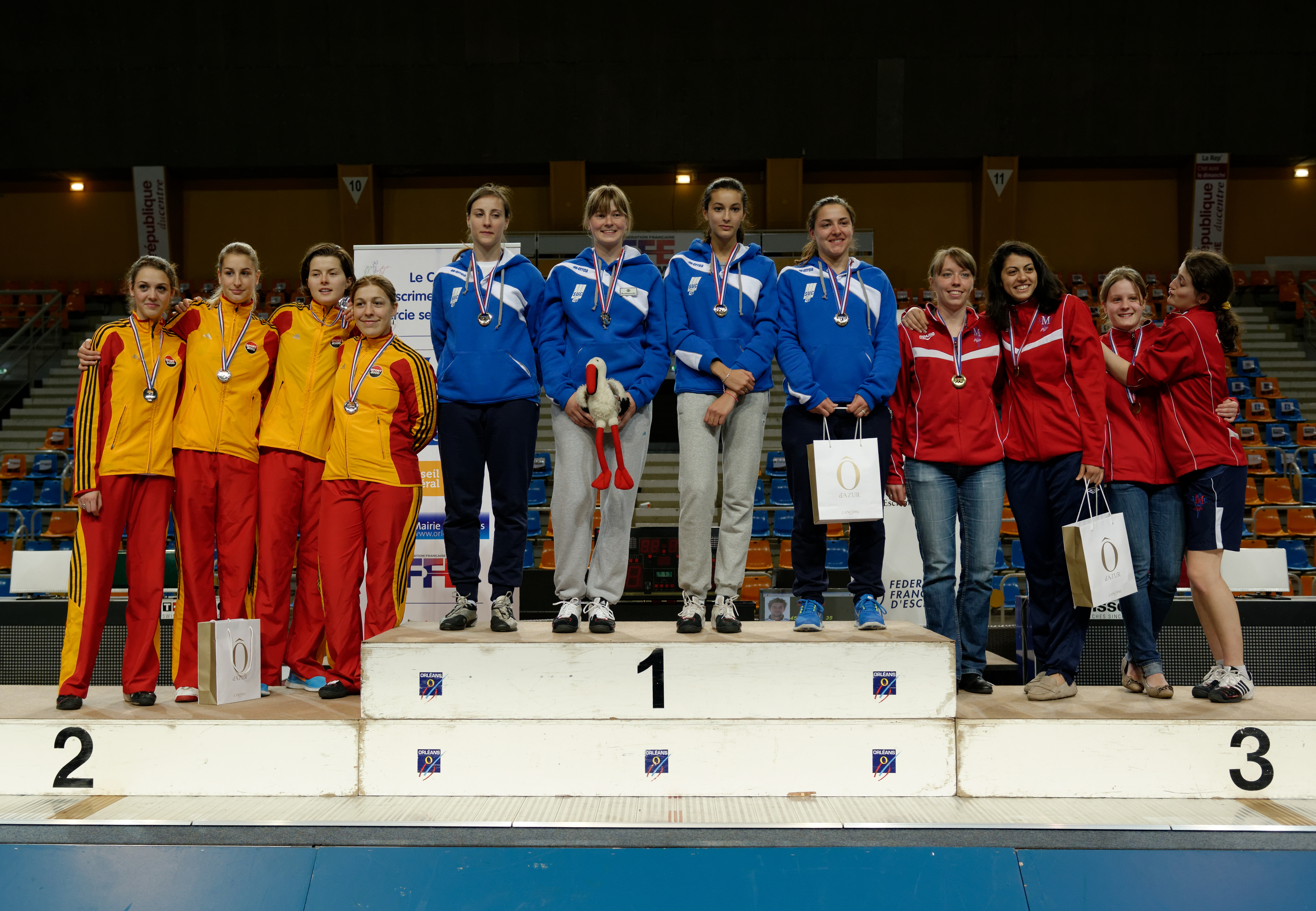 Women's team sabre podium in the French Fencing Championship; from left to right: Cercle d'escrime d'Orléans, Strasbourg UC, US Métro. Palais des Sports in Orléans, 2013.